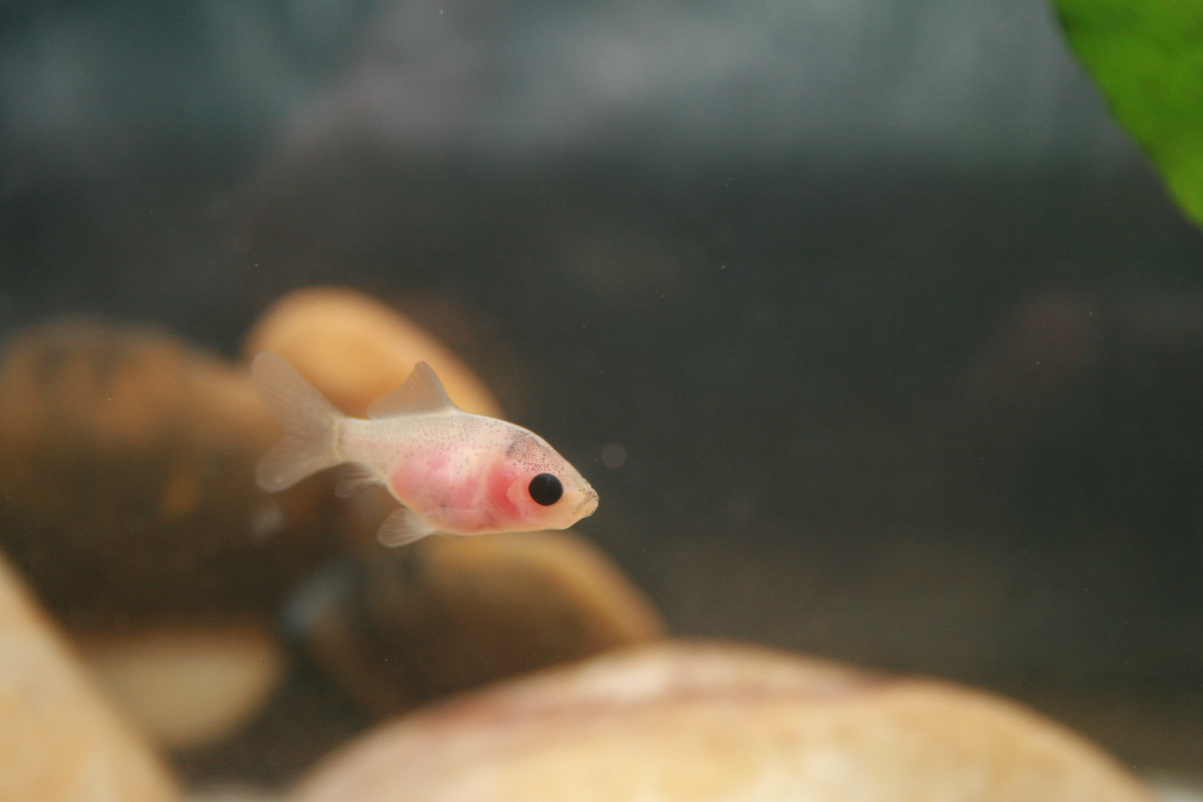 Baby Calico Goldfish